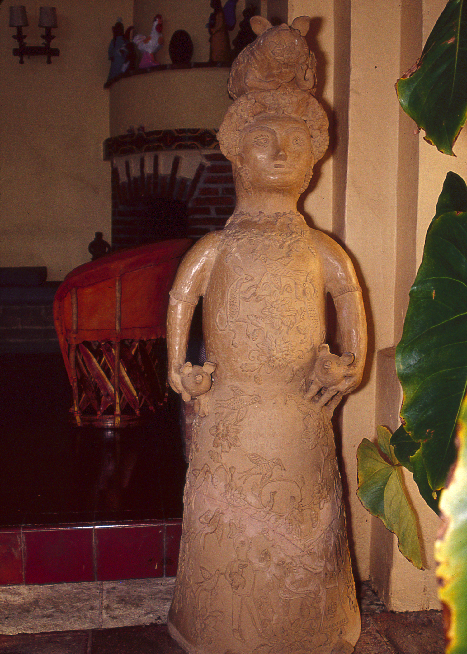 Large female figure by Teodora Blanco Nuñez of Santa Maria Atzompa, Oaxaca, Mexico